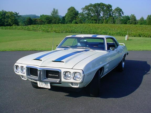 Pontiac Trans Am 1969